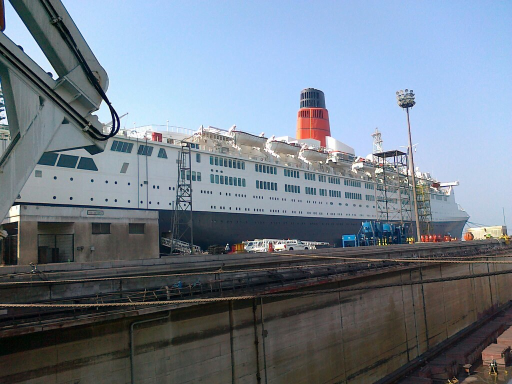 To change it's face to a floating hotel.